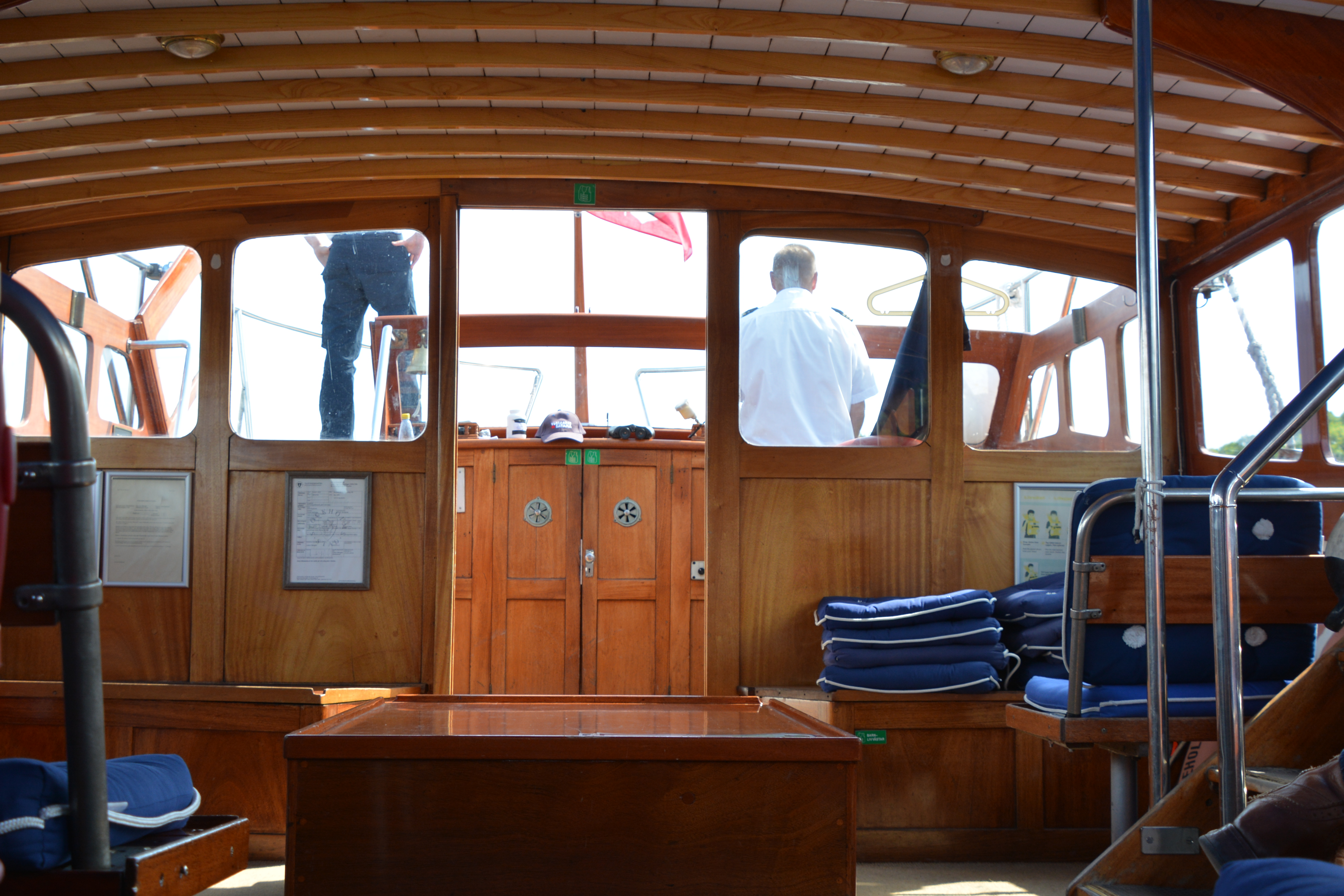 M/S Stegeholm, Swedish heritage passenger ship, Stockholm, at Brunnsviken